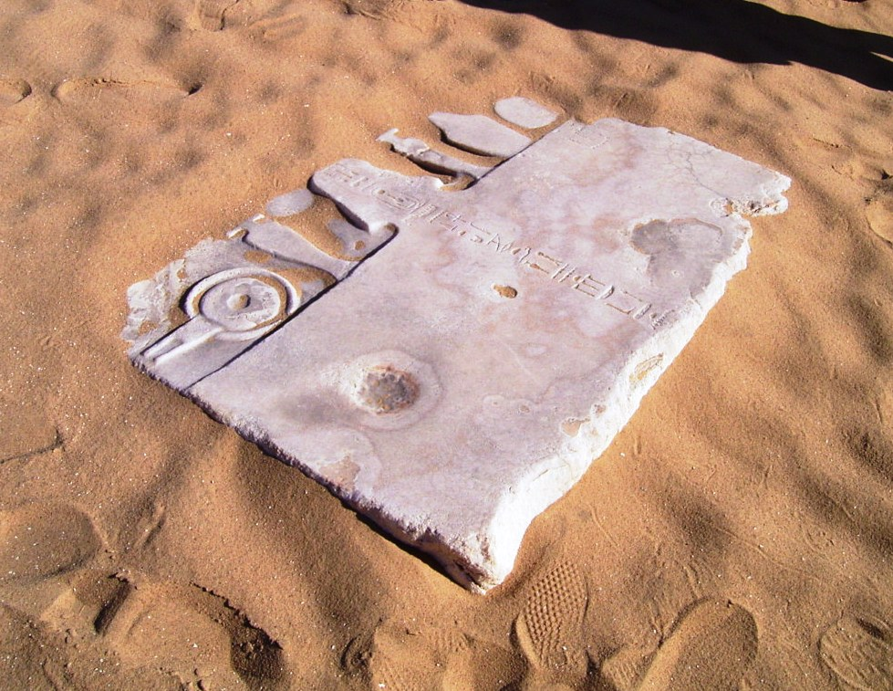 Alabaster sacrificial table of Queen Wedjebten (6th Dynasty) next to her pyramid at South Saqqara